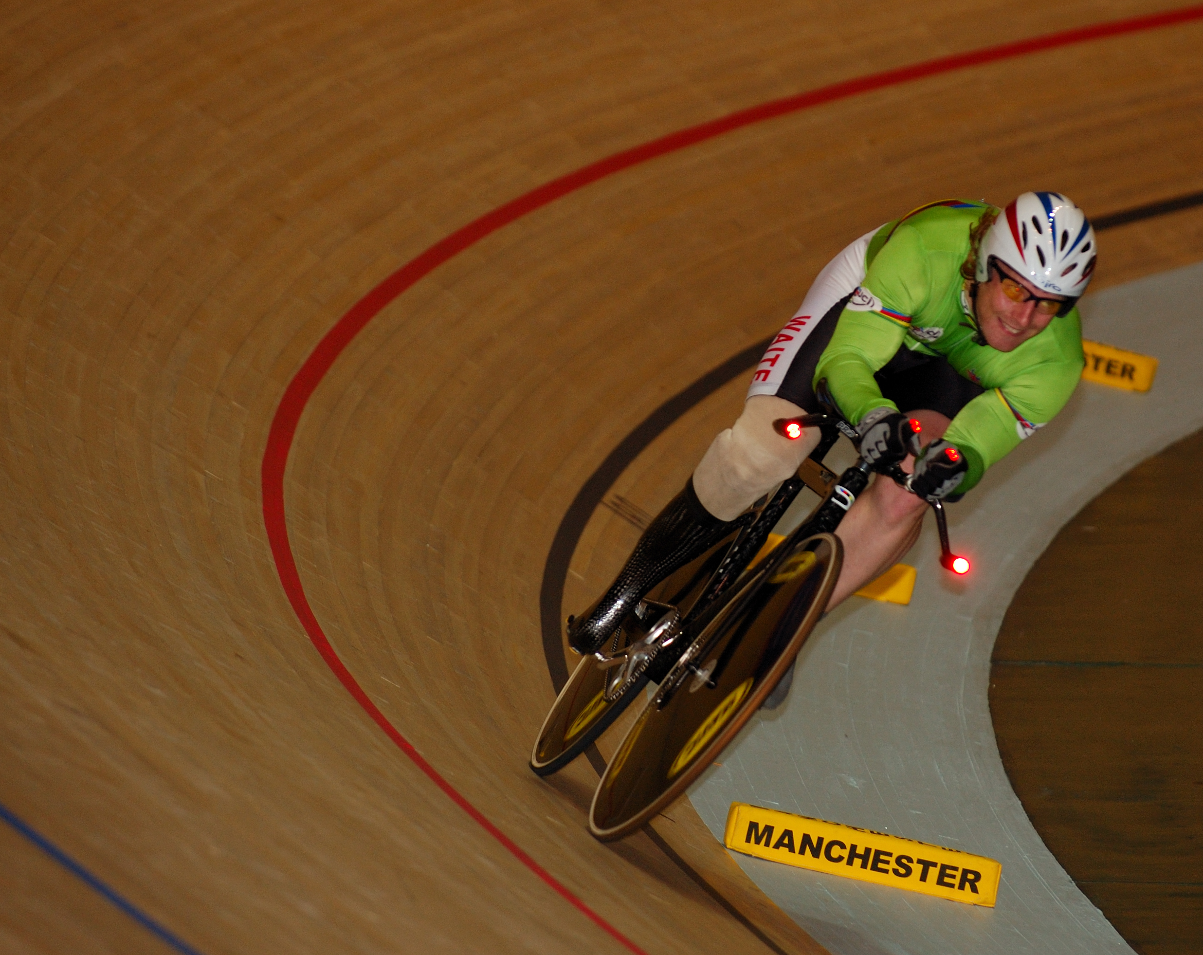 World disablity champion Jody Cundy - 10th VC St Raphael 1m:10.0s - 51.449 kph 32.156 mph